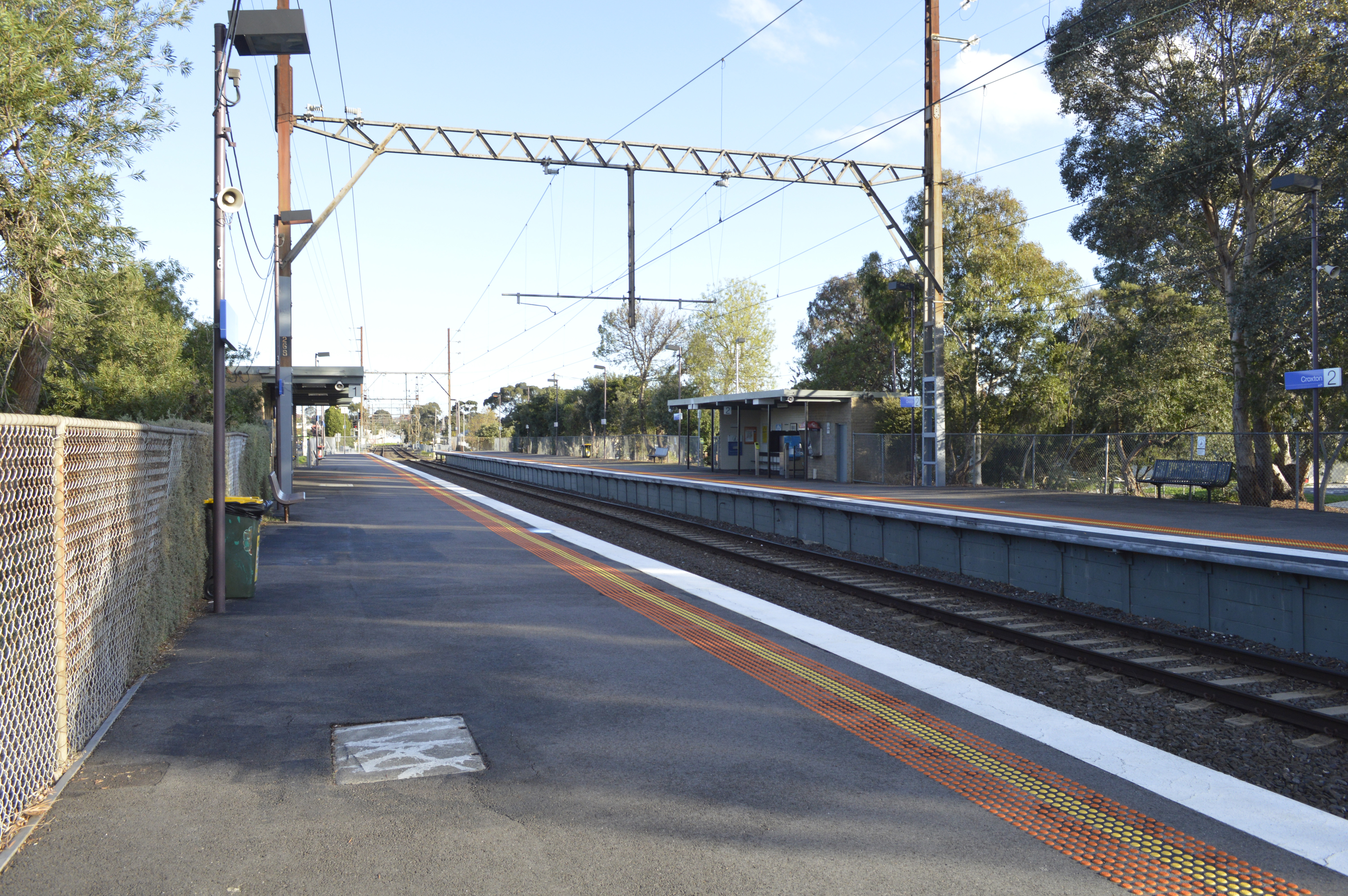 Southbound view from platform 1